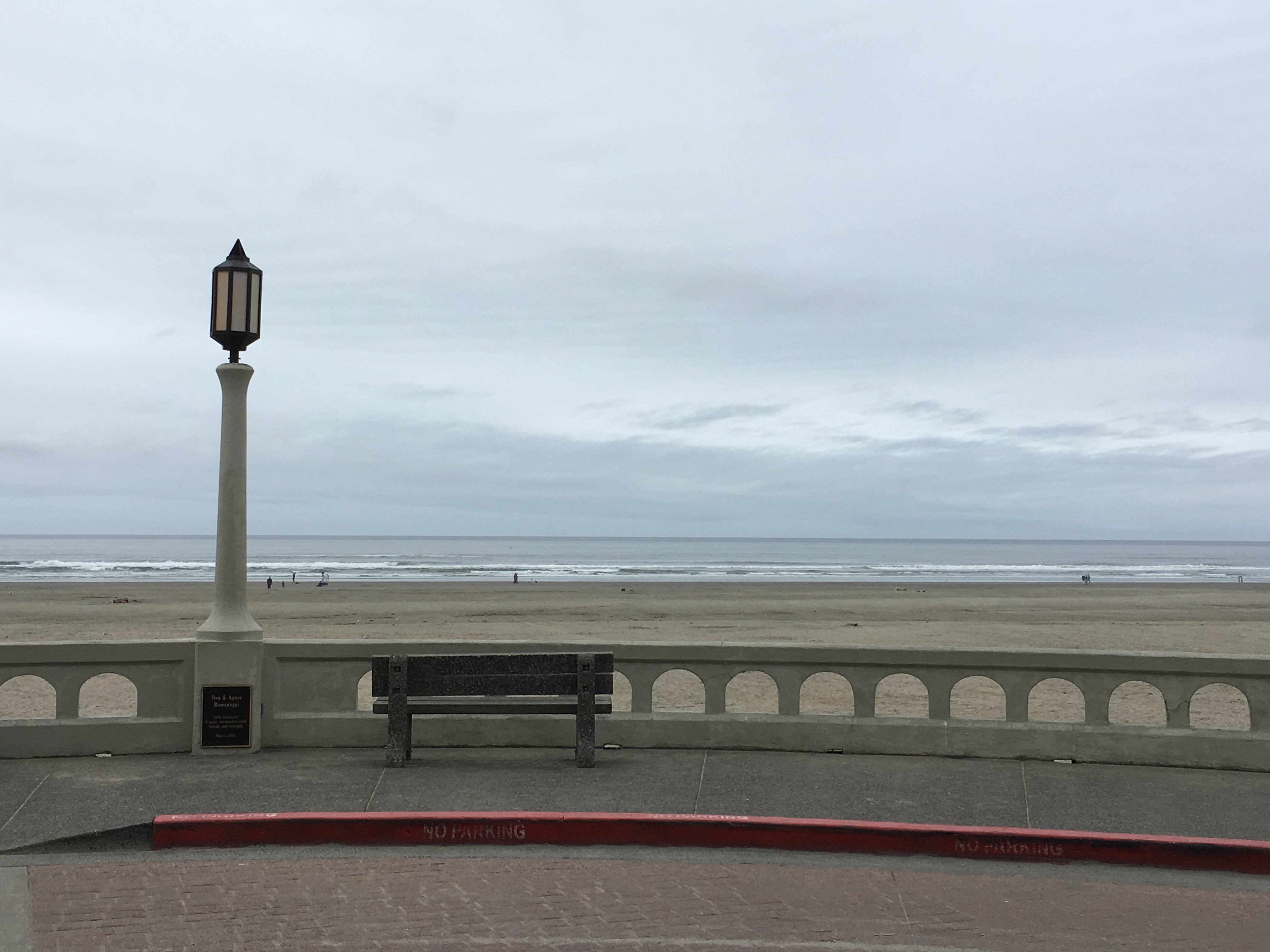 Seaside, Oregon beach.